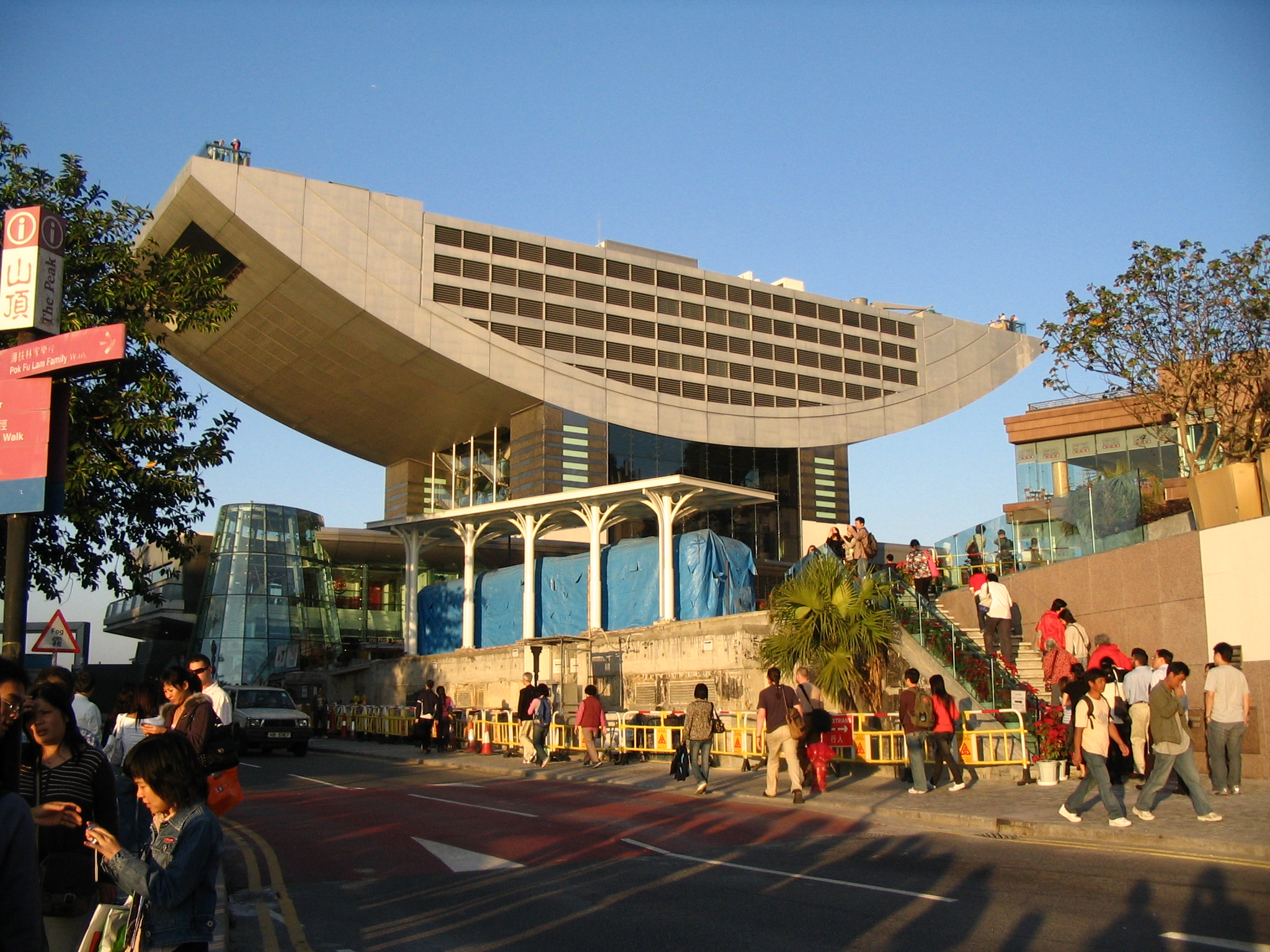 Photo of Peak Tower